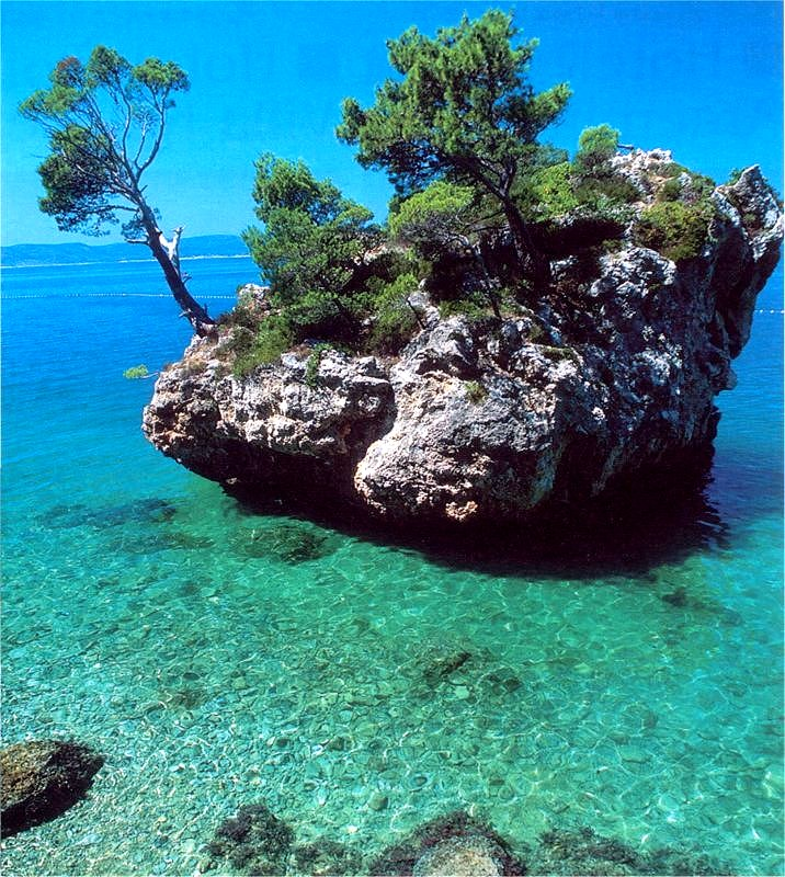 Brela, Southern Dalmatia, Croatia. Uploaded by user Neoneo13 for Wikipedia.